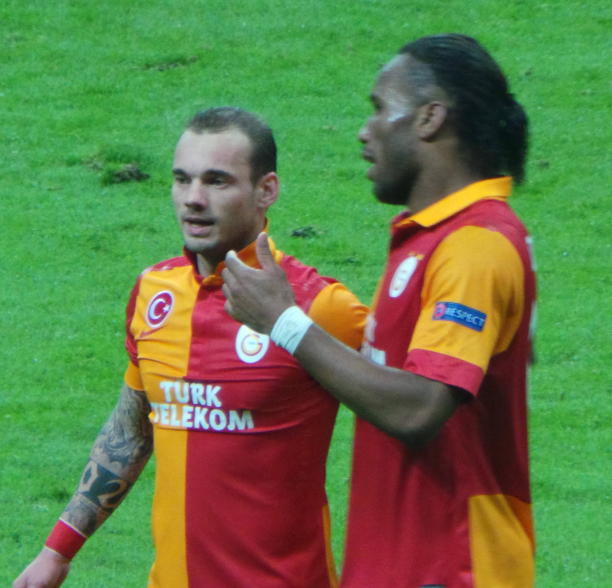 Wesley Sneijder with Didier Drogba @ Real Madrid match 3-2 (5-3)